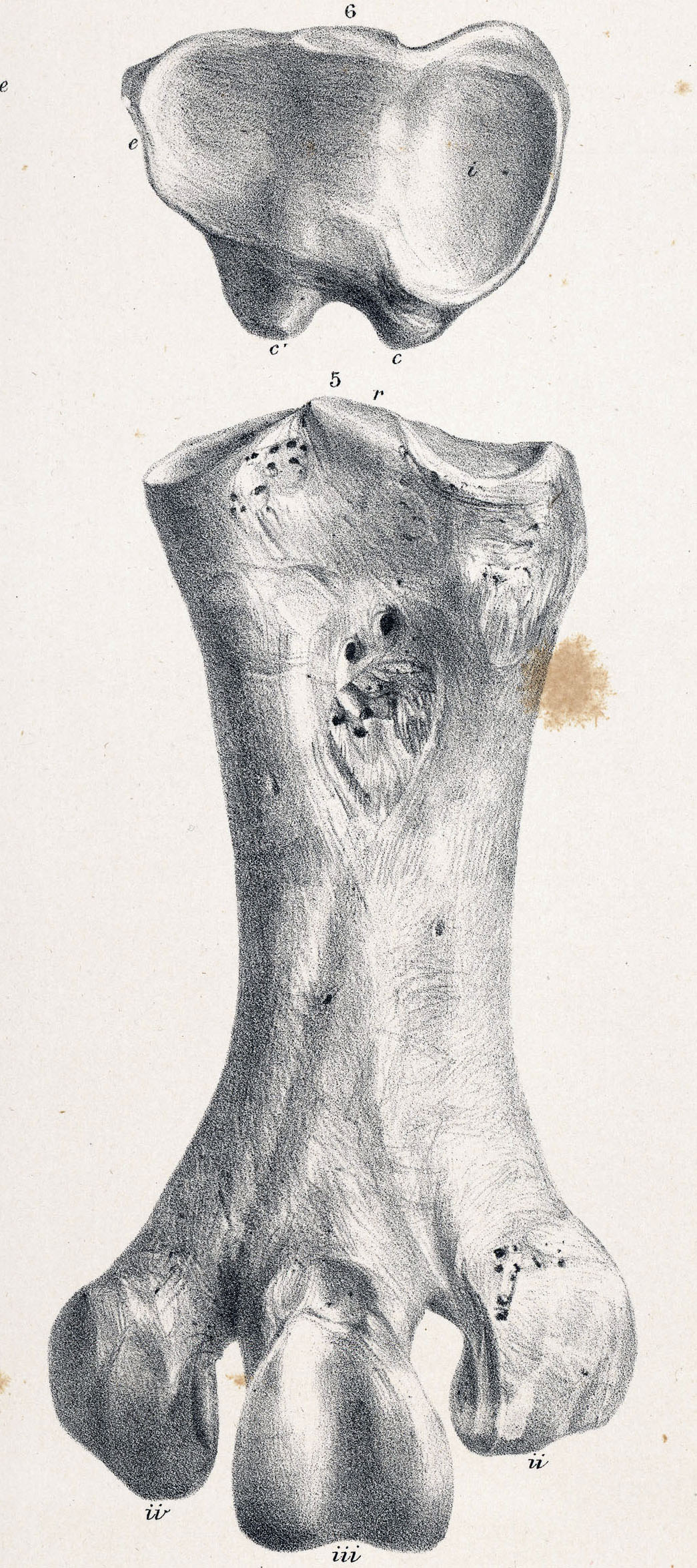 Tarsometatarsus of Pachyornis geranoides.